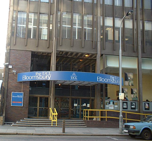 Bloomsbury Theatre taken by C Ford, March 04.